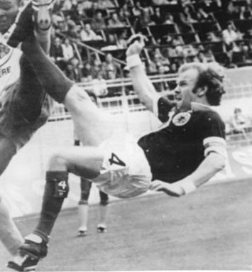 Billy Bremner of Scotland This file has been extracted from another file: Bundesarchiv Bild 183-N0614-0028, Fußball-WM, Zaire - Schottland 0-2.jpg